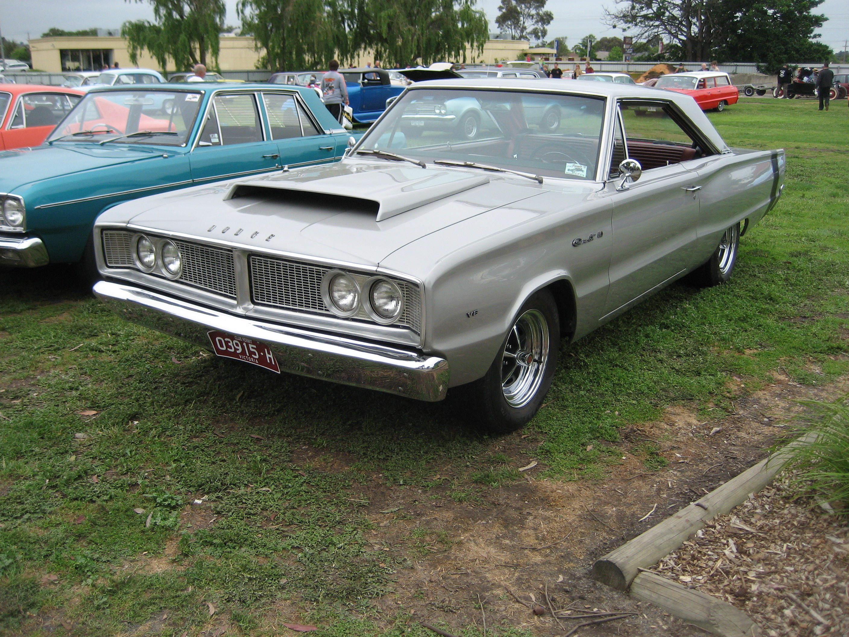 Coronets were made from 1949-76 Available in Coronet, Coronet Deluxe, Coronet 440 or Coronet 500. 2 or 4 door, convertible and wagon Engines; 225 6, 273, 318, 361, 383, 426 or 440 V8s